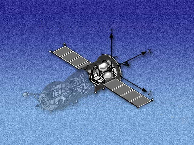 This graphic highlights the Soyuz spacecraft's Instrumentation/Propulsion Module.